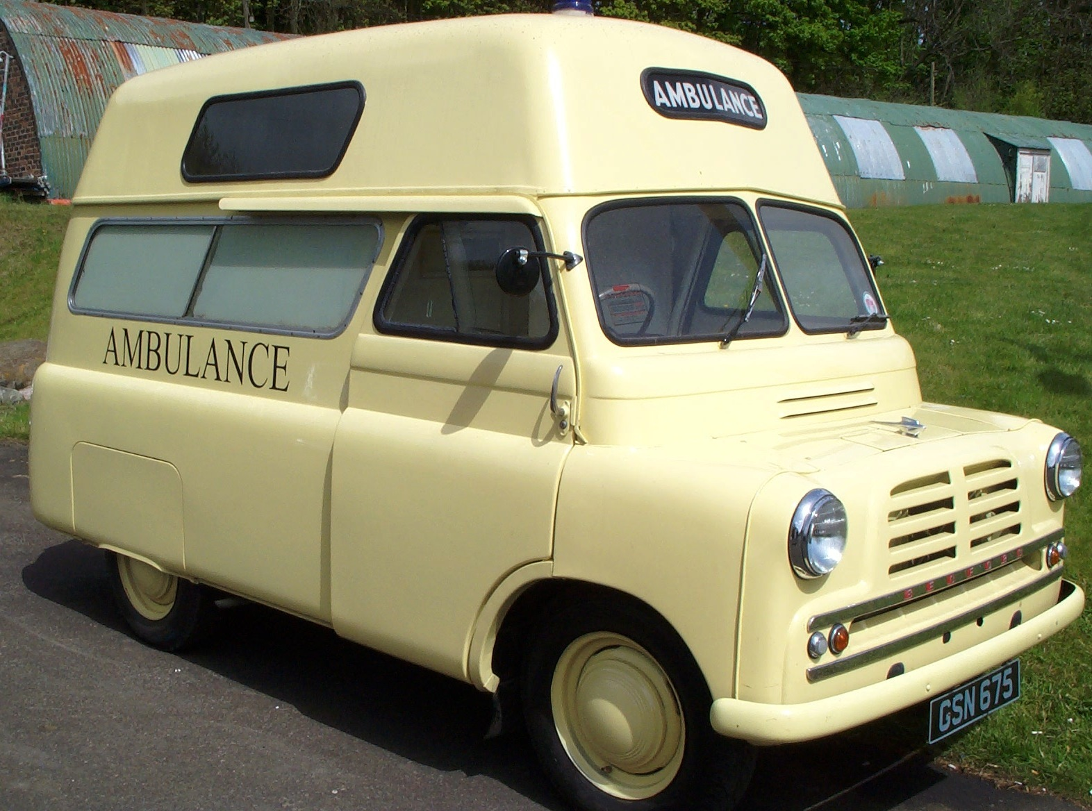 Bedford CA Ambulance with split screen (so before 1958)